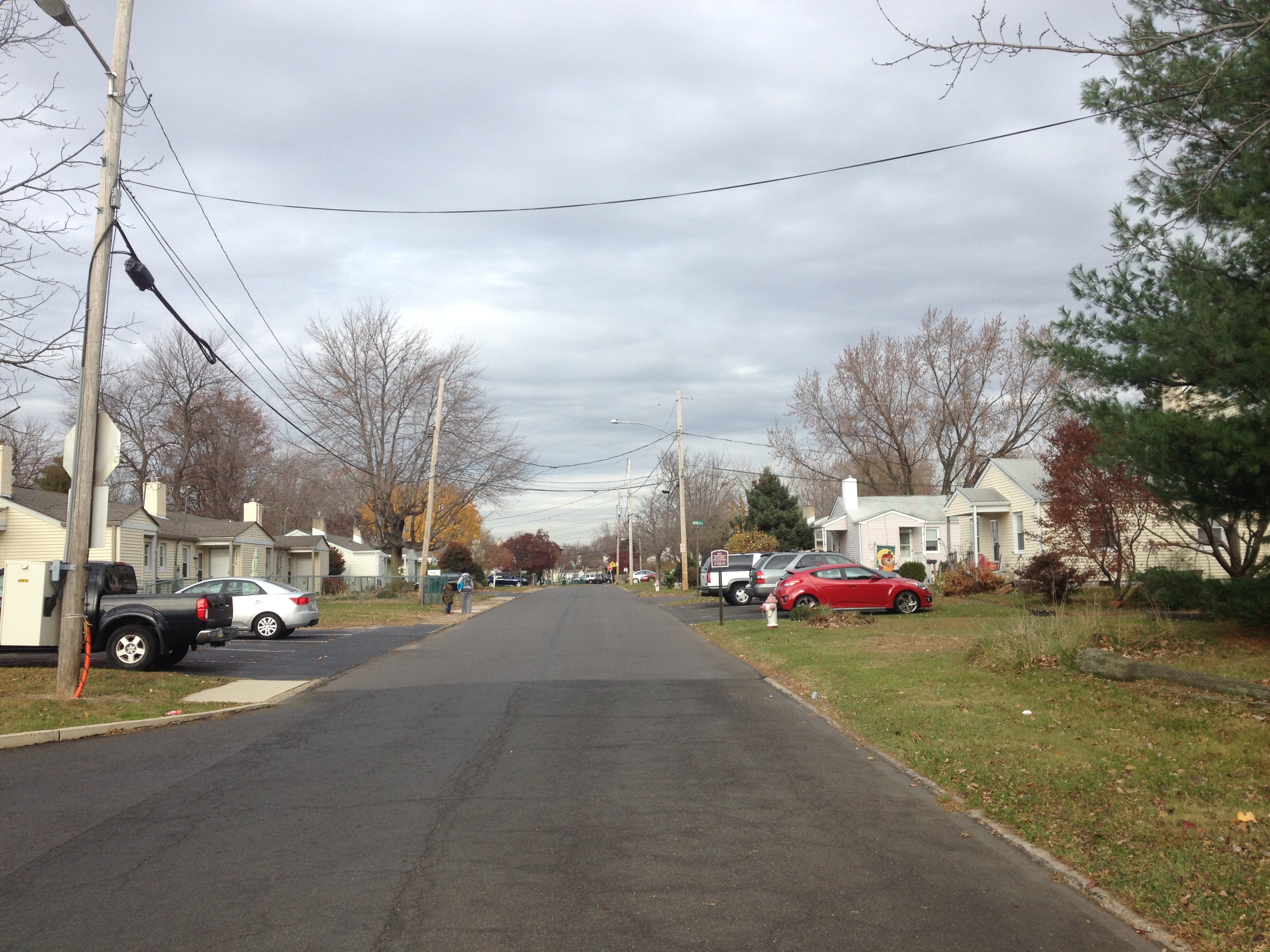 Jamison Street in Warminster Heights, Pennsylvania looking northeast